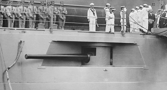 A view of a gun and casemate at USS Dakota.